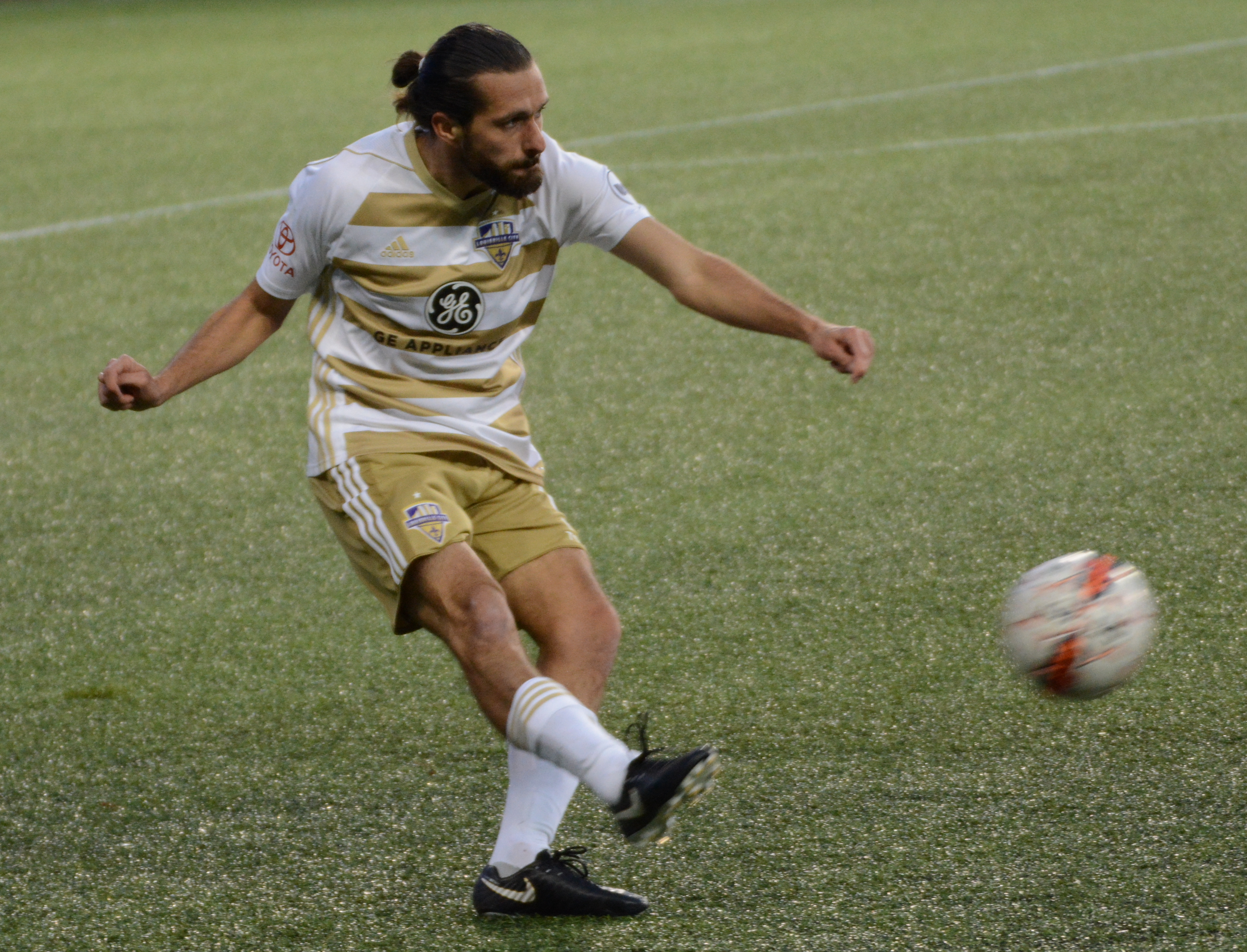 Louisville's Pat McMahon kicking the ball way up the field. Taken during FC Cincinnati's home opener against Louisville City FC at Nippert Stadium in Cincinnati, USA on April 7, 2018.